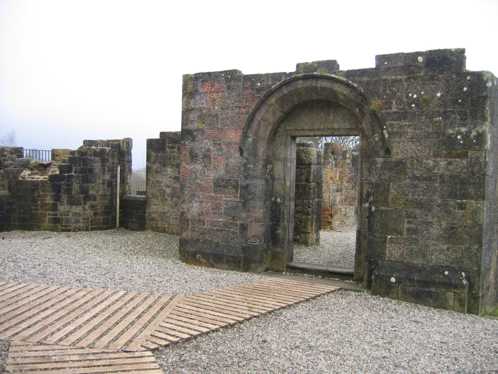 Ruins of the house within Mugdock Castle, near Milngavie, Scotland.